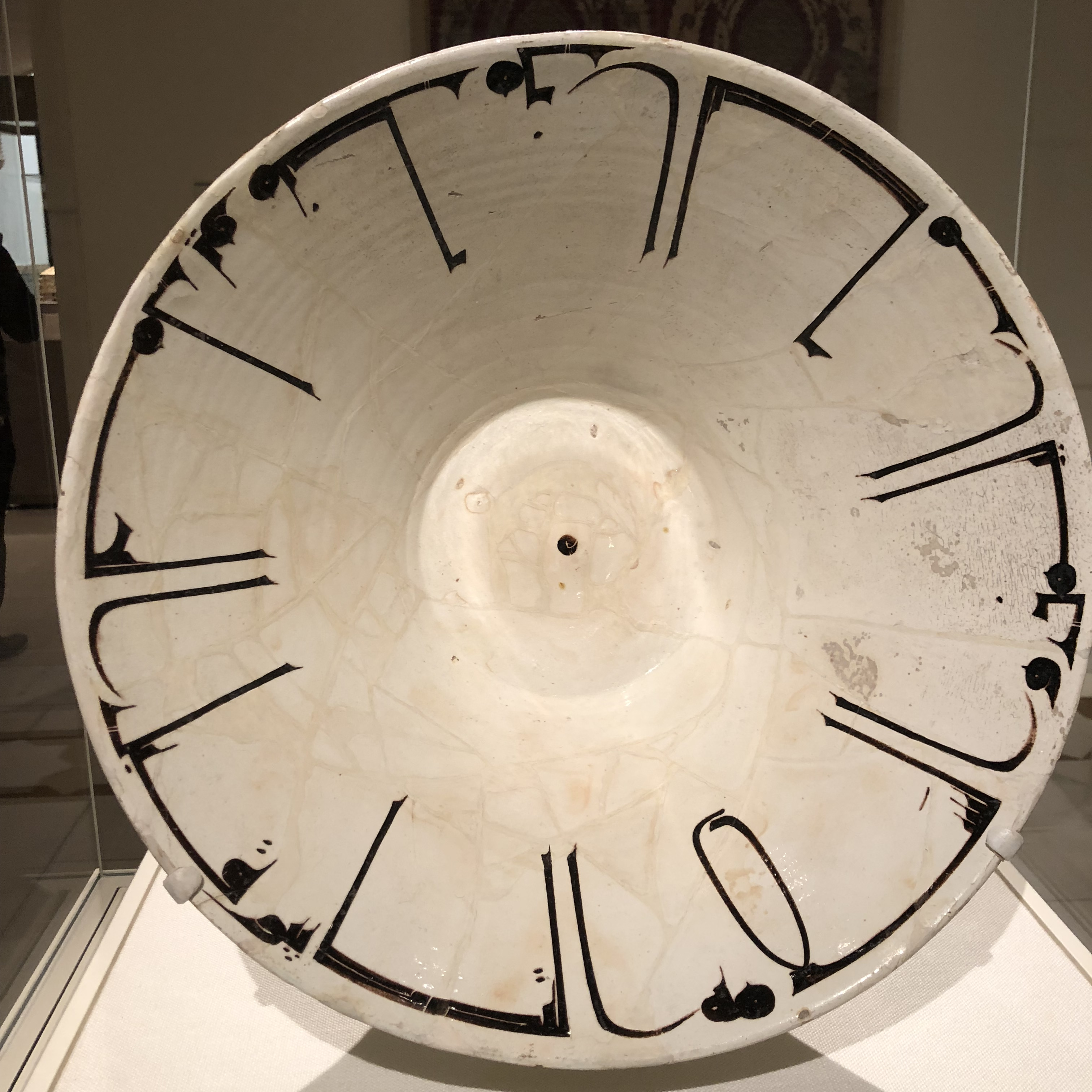 Bowl with Arabic Inscription, from Iran during Samanid period in the 10th century. The Bowl with Arabic Inscription follows the Islamic trend of non-figural imagery along with most other ceramics of that period. It has a white slip with black slip decoration under a transparent glaze. There is calligraphic decoration all around the bowl.The saying translates to “Planning before work protects you from regret; prosperity and peace”. Located at the Metropolitan Museum of Art